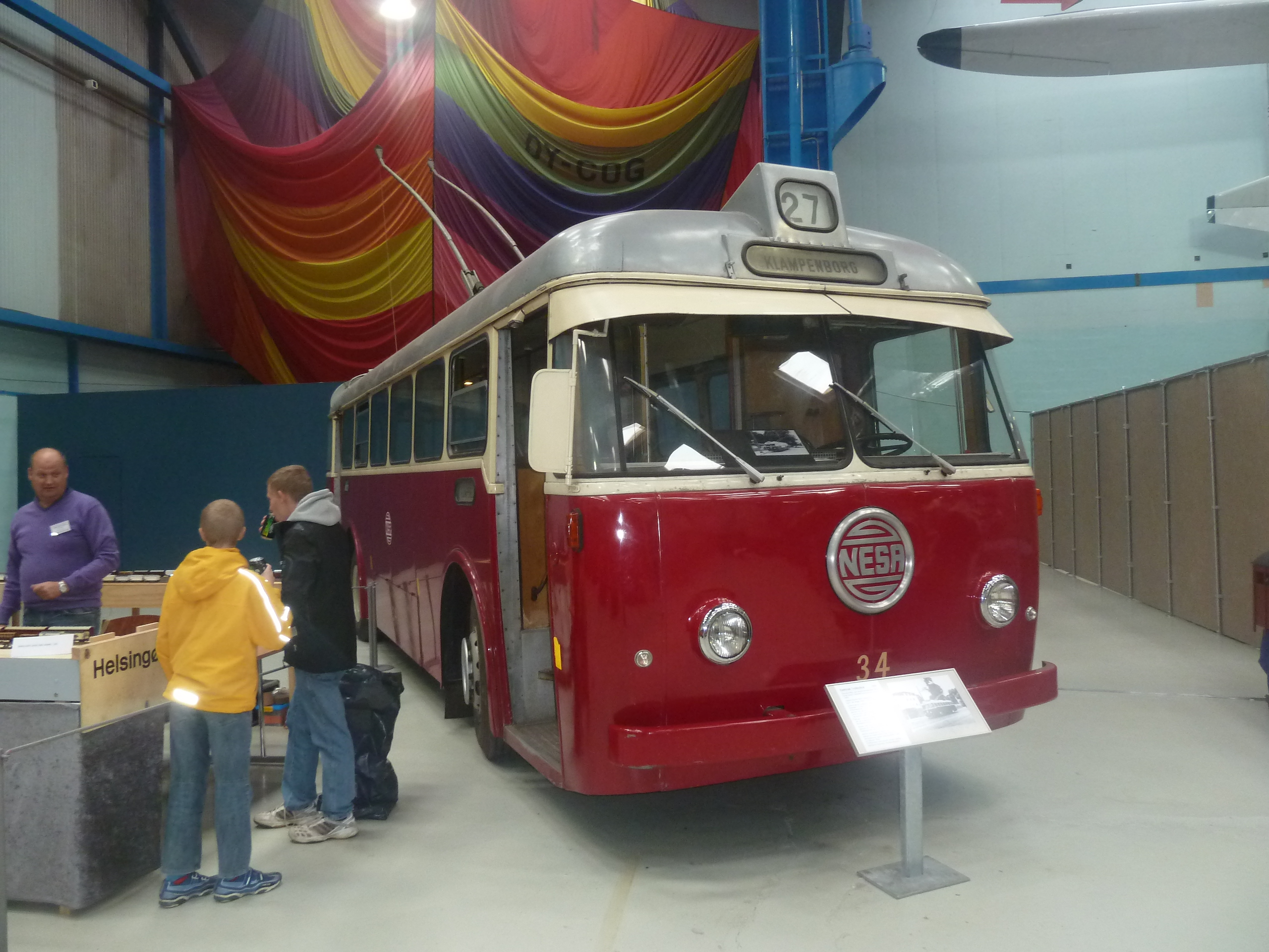 Old trolleybus from Copenhagen, NESA 34, on Danmarks Tekniske Museum (the Danish Technical Museum). Number 34 was built in 1953 by British United Traction (BUT.